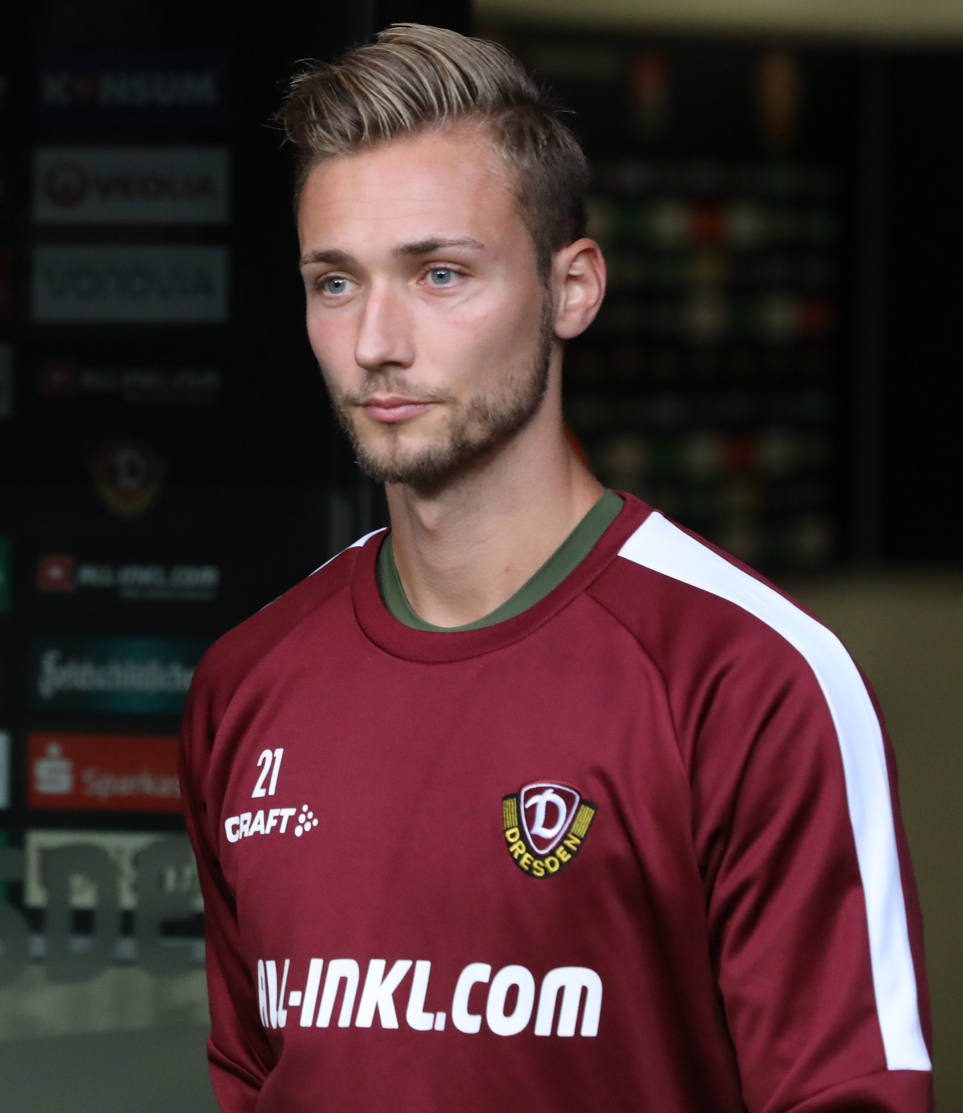 Test game, 17th July 2019: SG Dynamo Dresden vs. Paris Saint-Germain 1:6 (0:3)